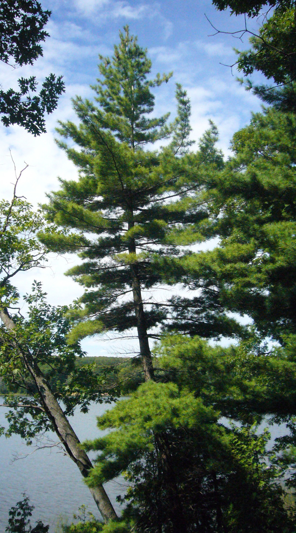 Pinus strobus, Awenda Provincial Park, Sawlog Bay, Ontario, 44°50'40"N 79°58'33"W, 200m altitude